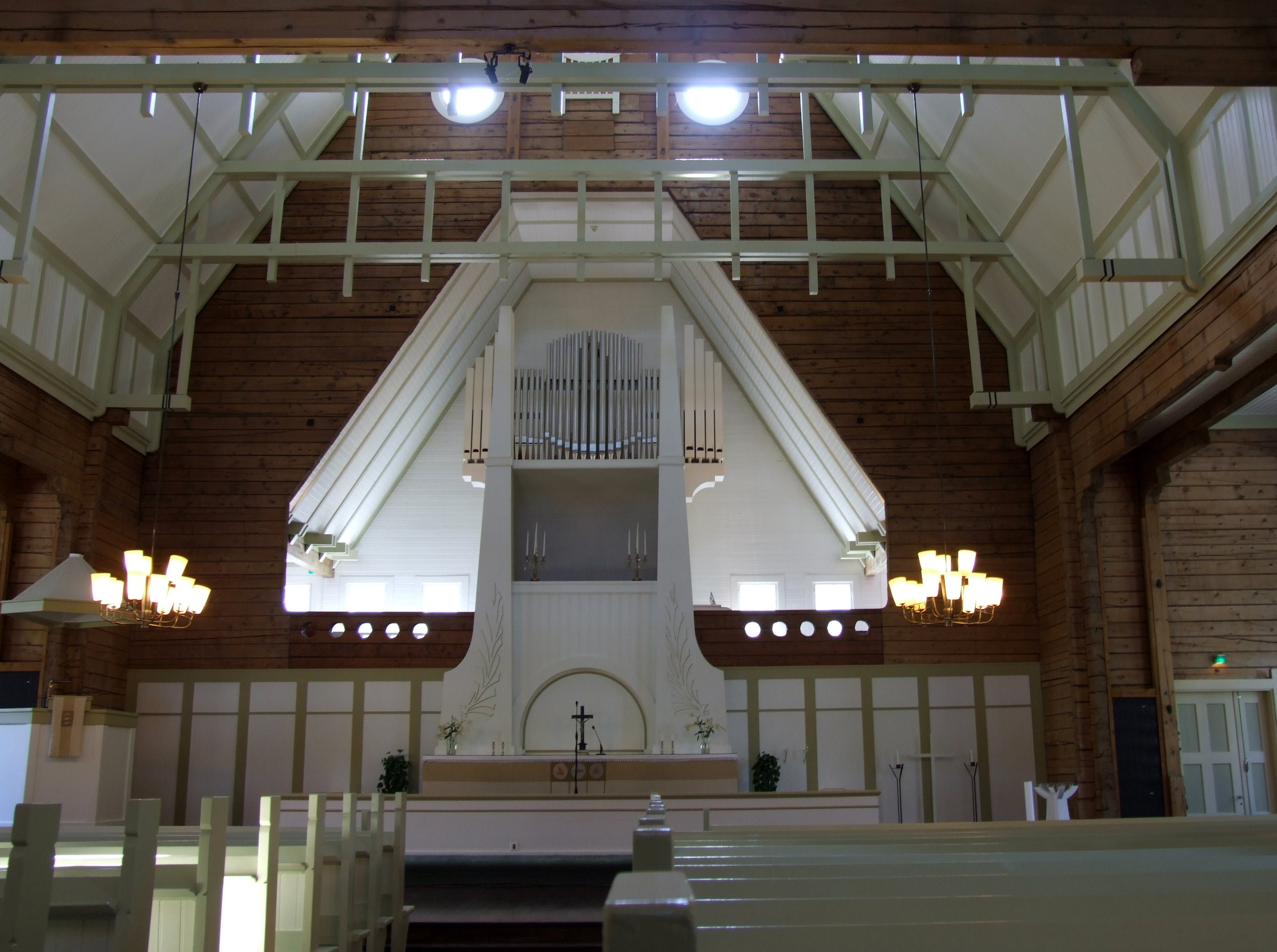 Interior of Oulujoki church.